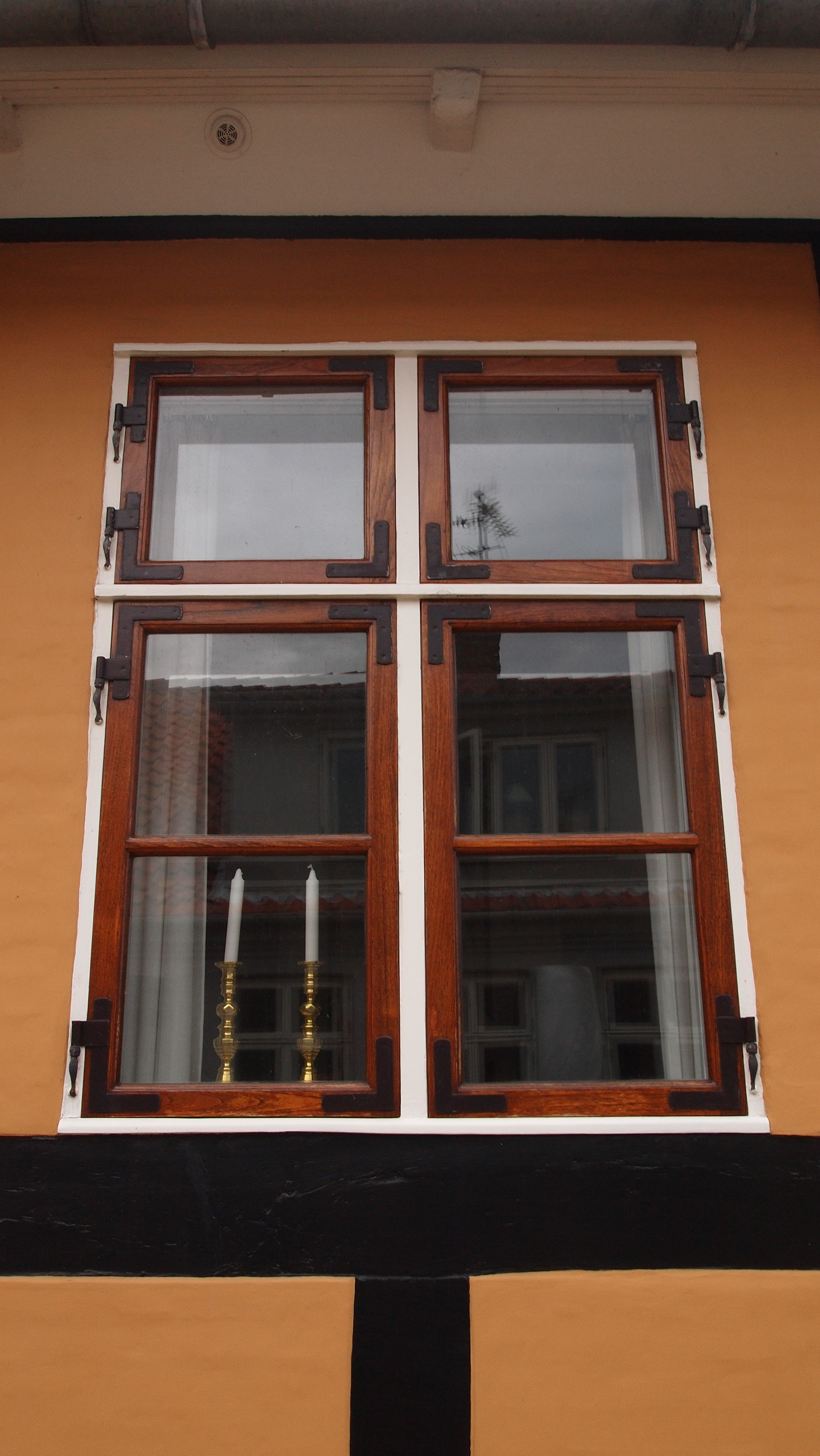 Vindue i Karnaphuset